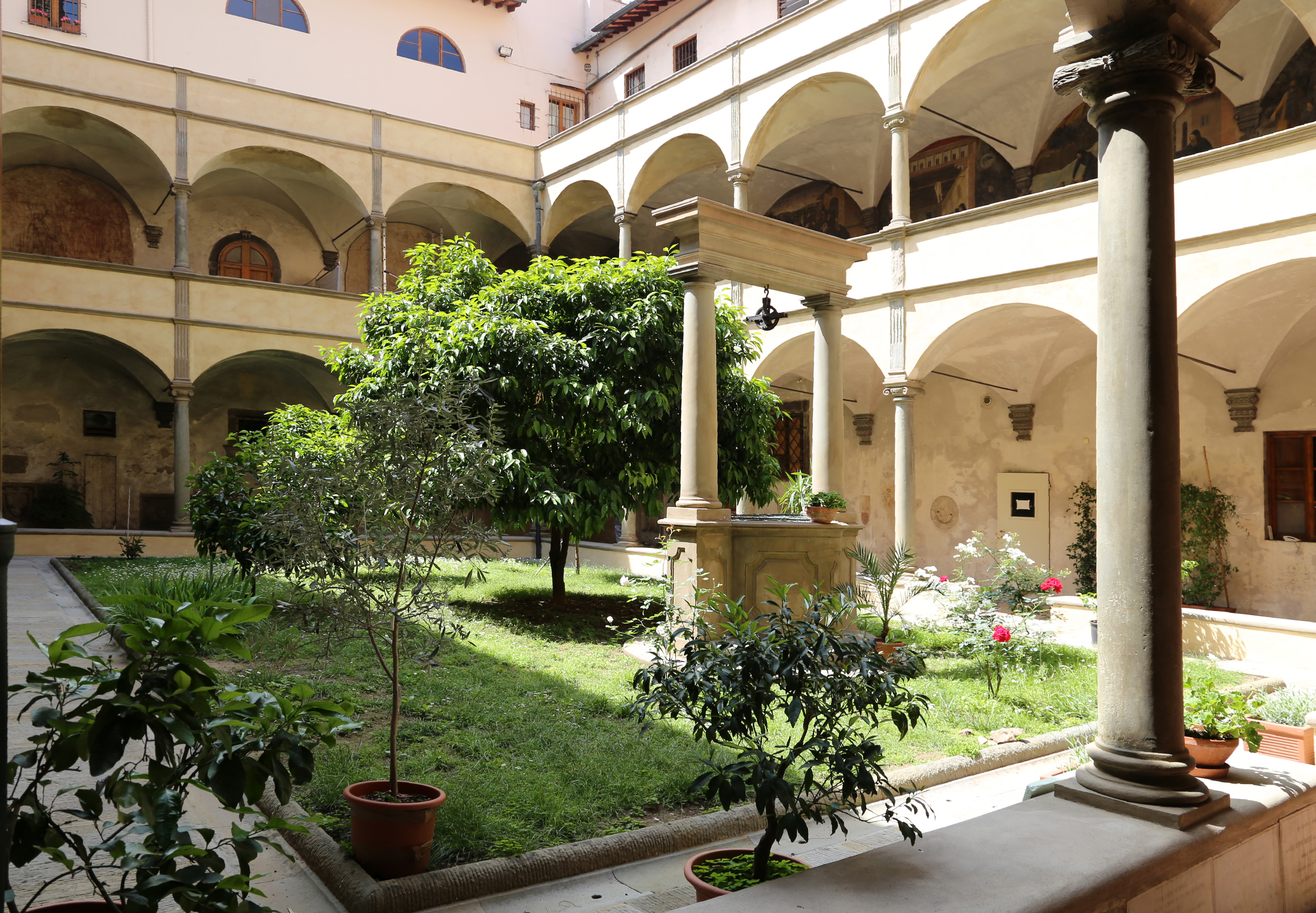 Chiostro degli aranci